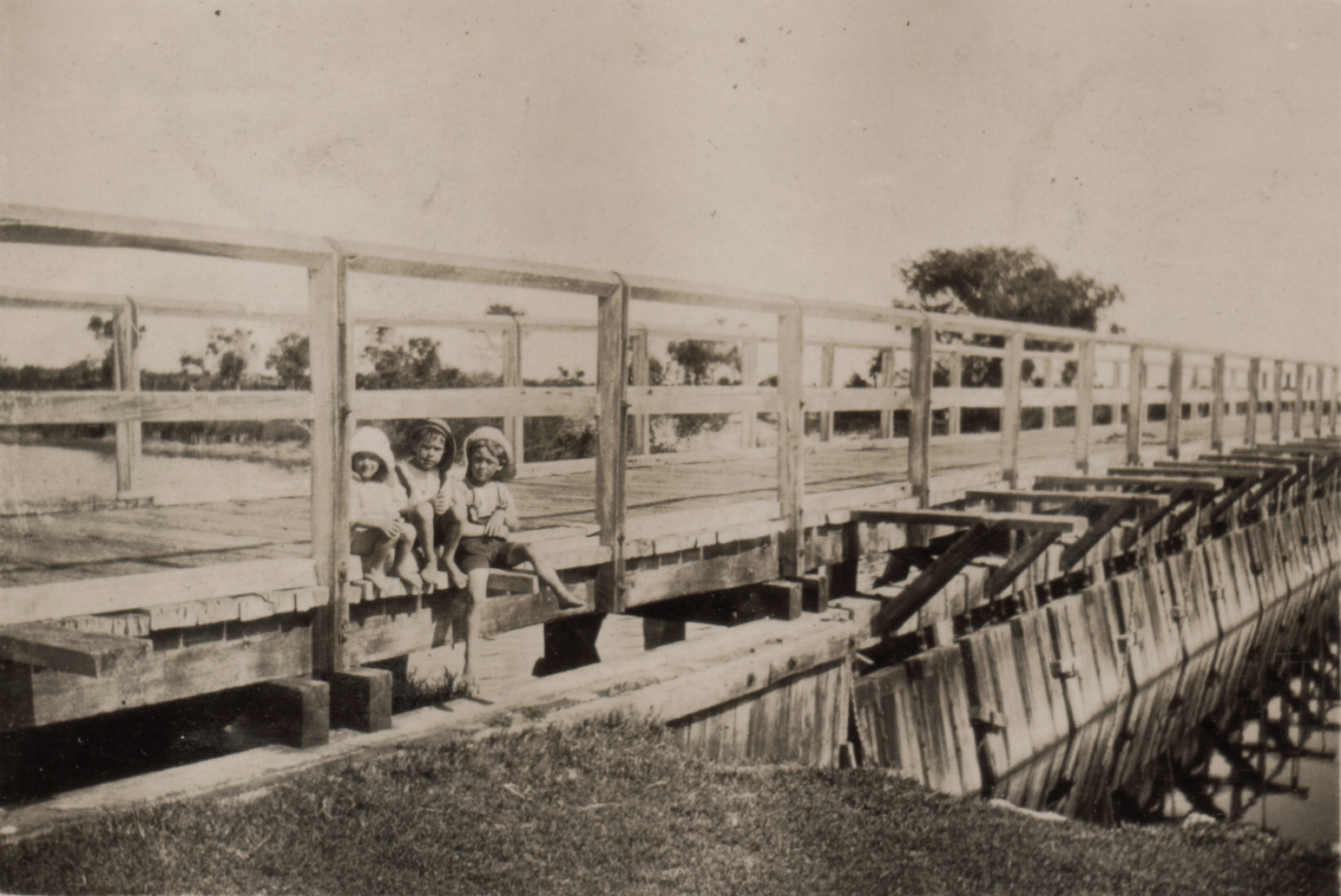 Bridge at Wonnerup, Western Australia, 27 March 1921 Joyce Canby, Neil, Tom Canby